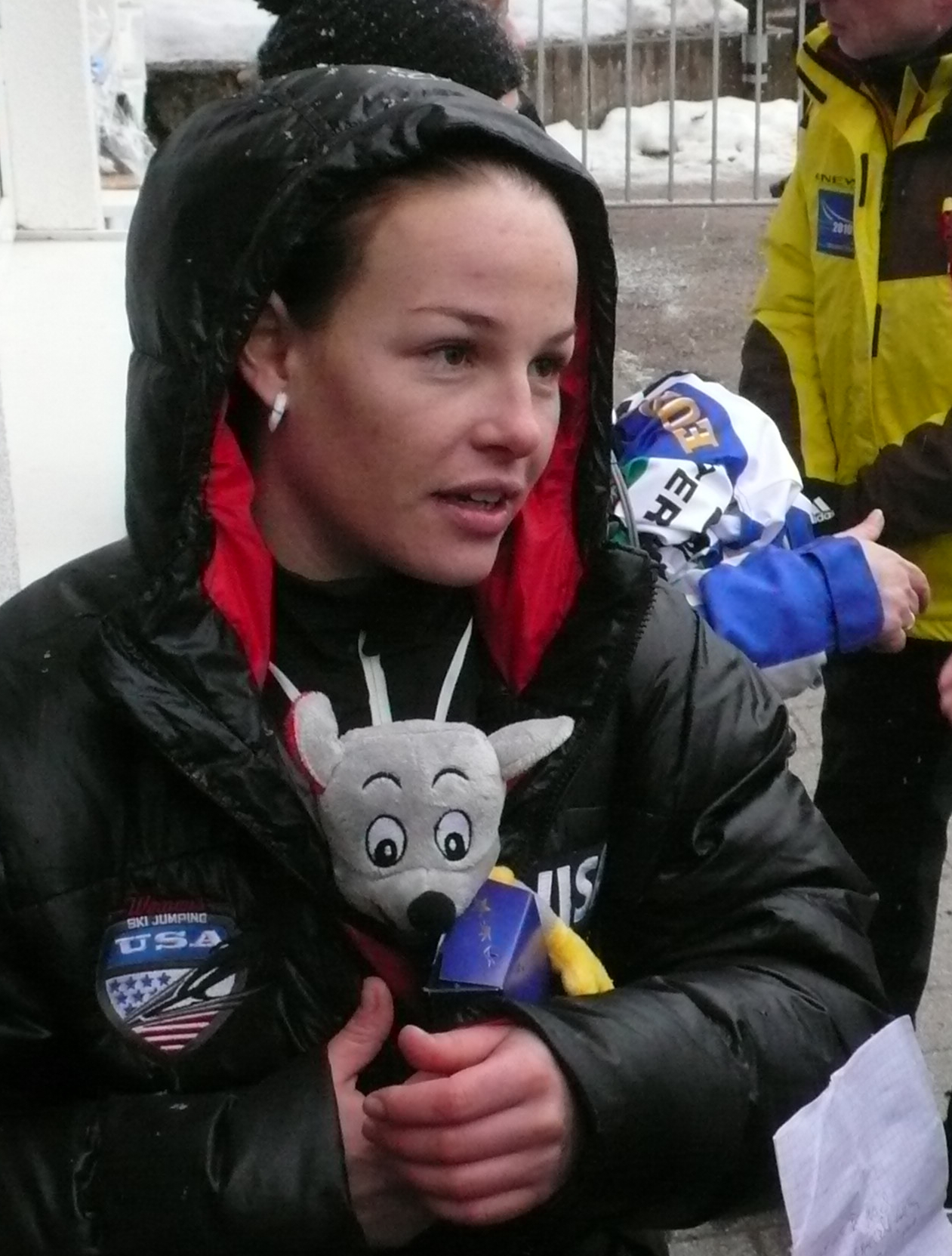 Lindsey Van, Hinterzarten